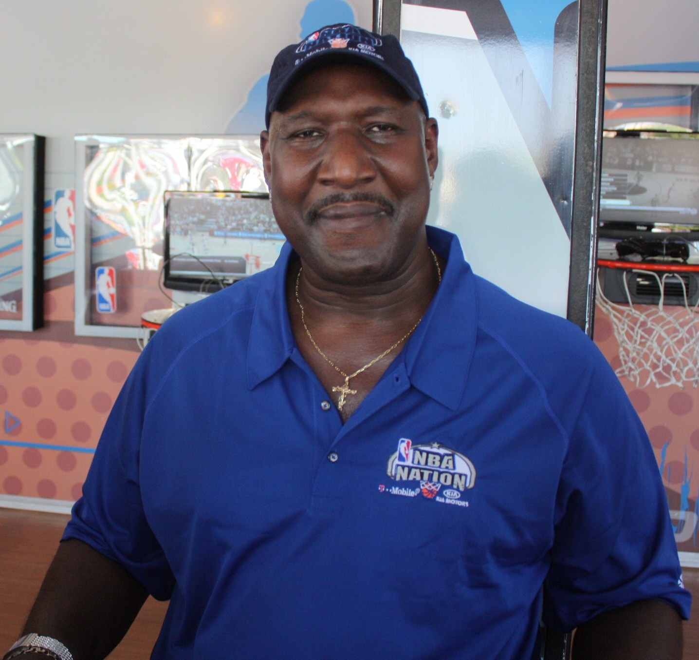 NBA Star Darryl Dawkins